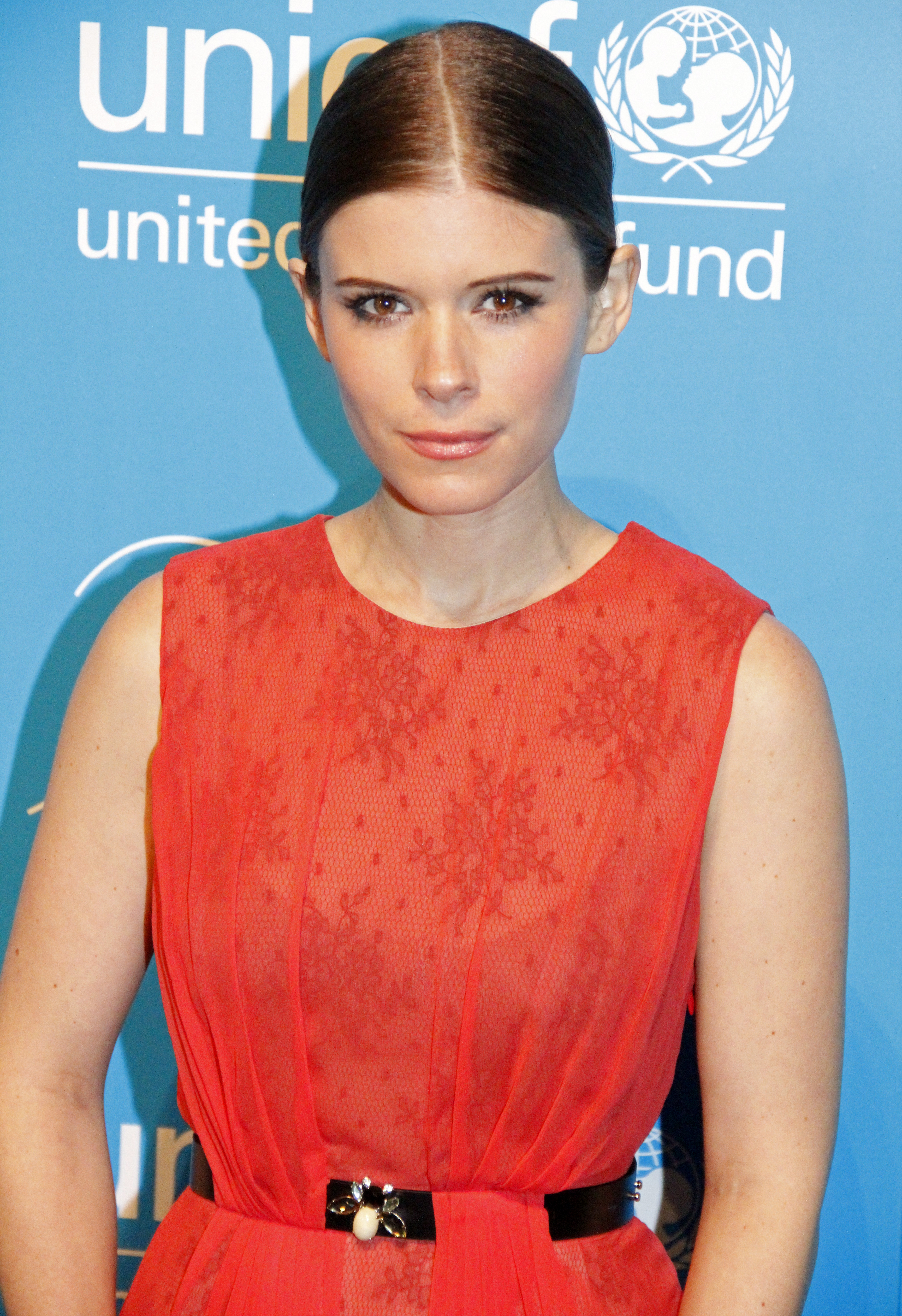 Kate Mara at the UNICEF Snowflake Ball 2012 in New York City.